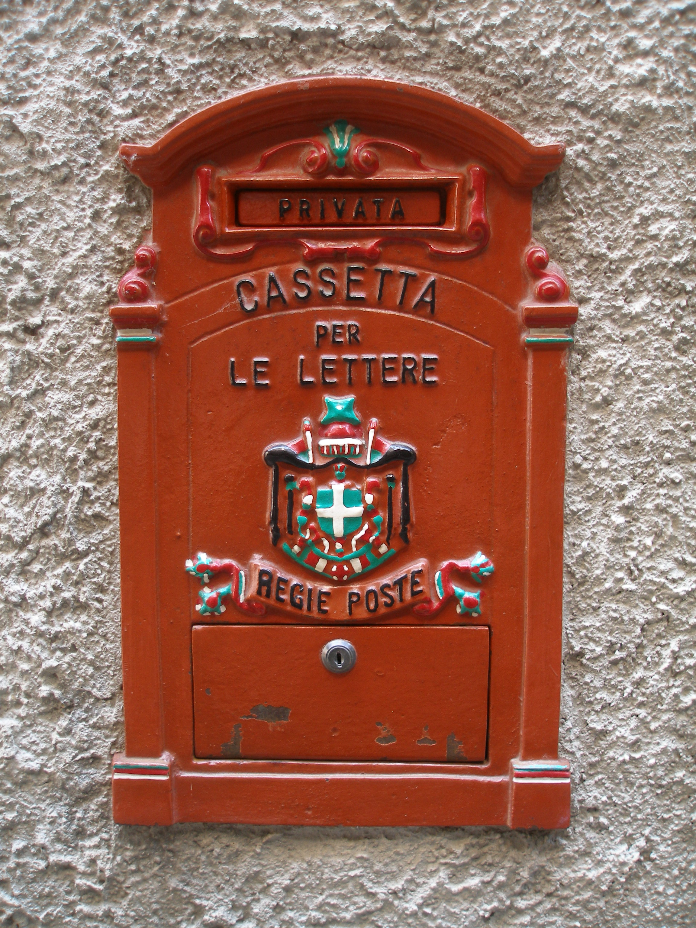 Malcesine, one of letterboxes